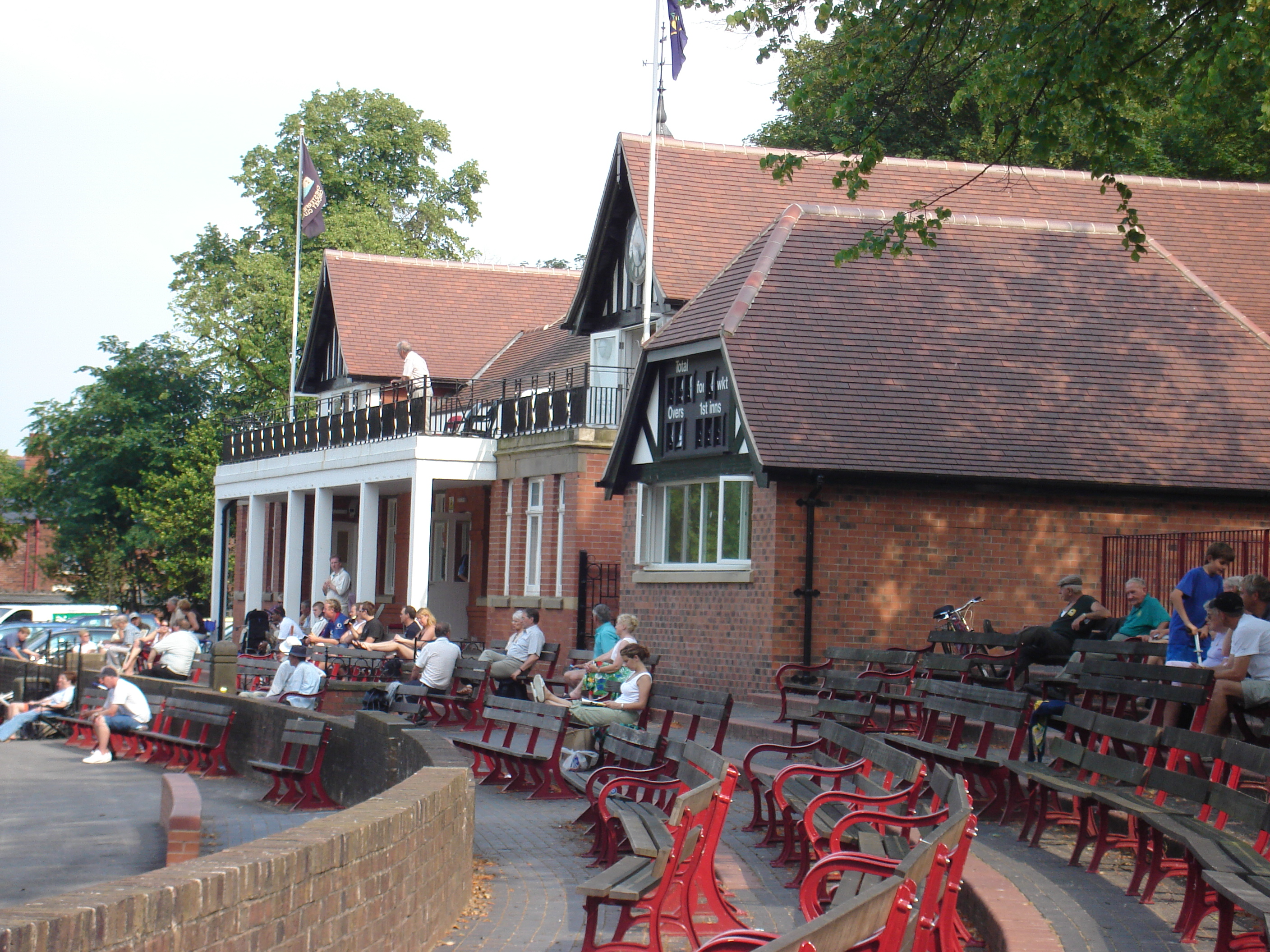 Queen's Park, Chesterfield. Picture taken by thebestkiano.